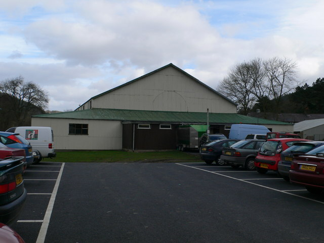 Pafiliwn, Corwen The Pavilion at Corwen, venue for concerts, dances, eisteddfodau, public meetings and the like. Today there was a farmer's market there. Not a particularly pretty building , nevertheless a historically important one - it housed the first National Eisteddfod after World War I and also the first Urdd Eisteddfod in 1922.